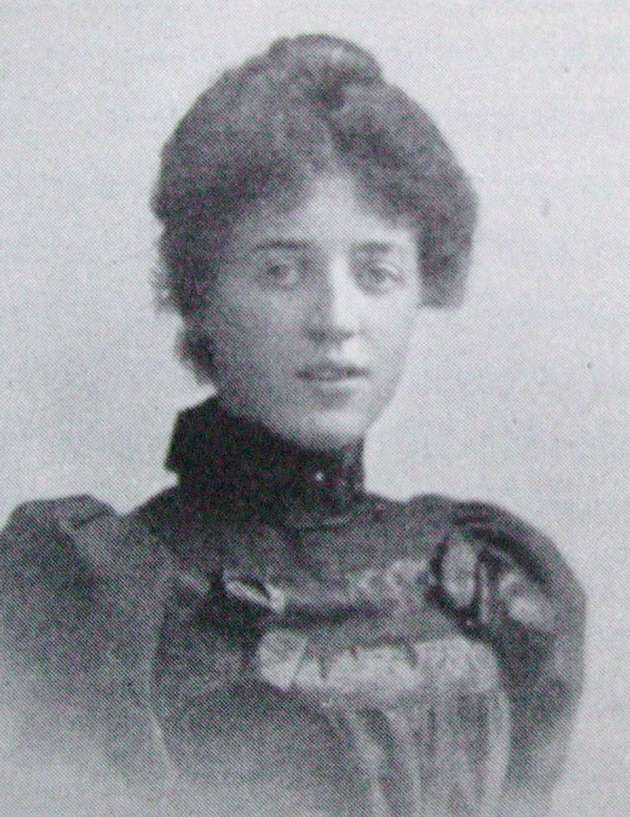 Picture of Mia Leche Löfgren, Swedish writer